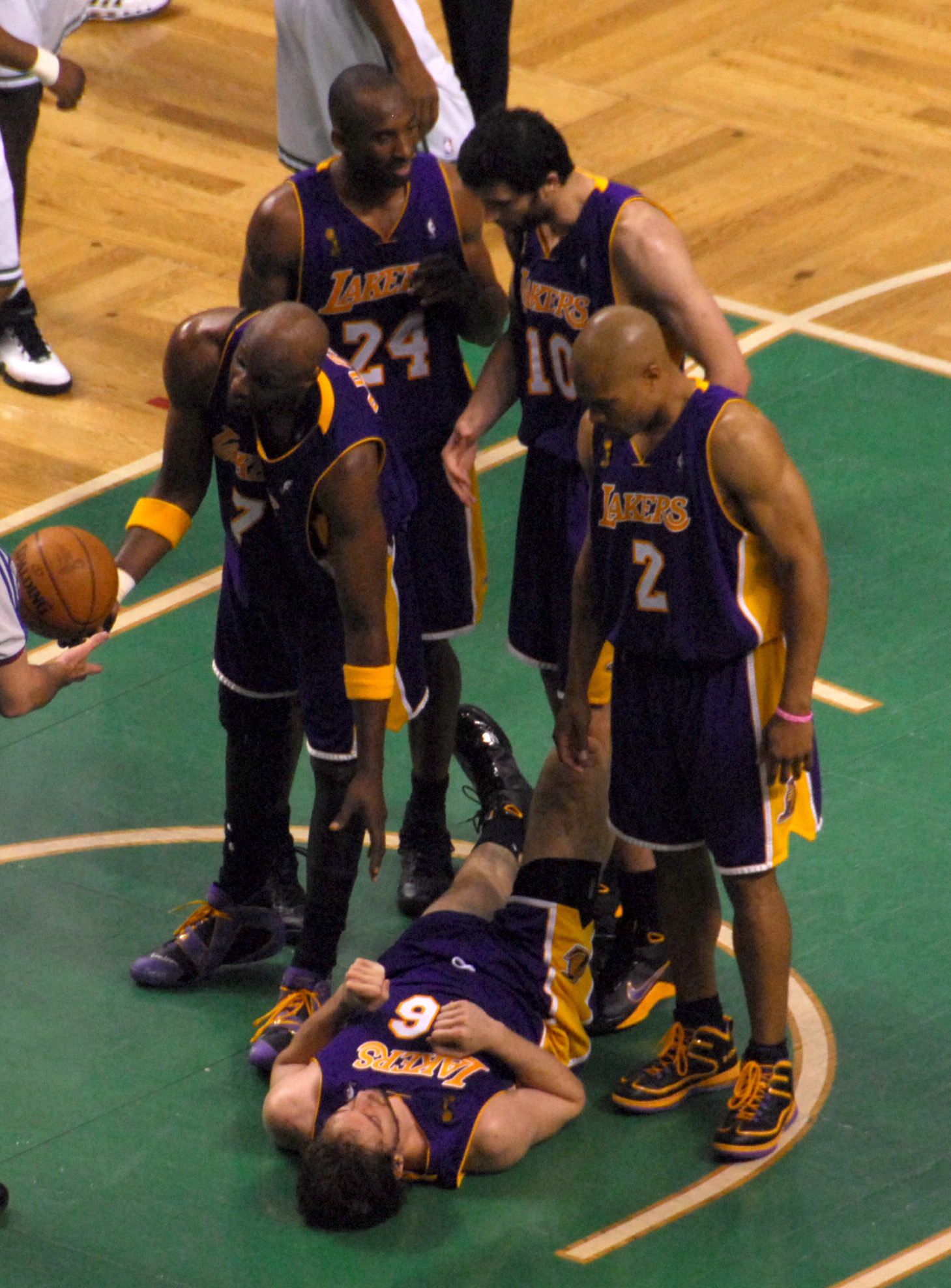 Lakers at Boston Game 2 of the 2008 NBA Finals.